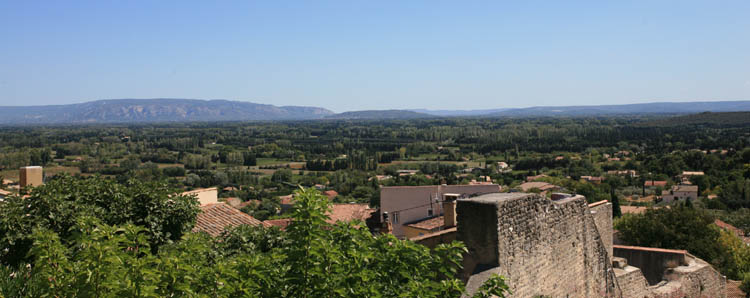 view from the Village of Châteauneuf-de-Gadagne in Vaucluse, France